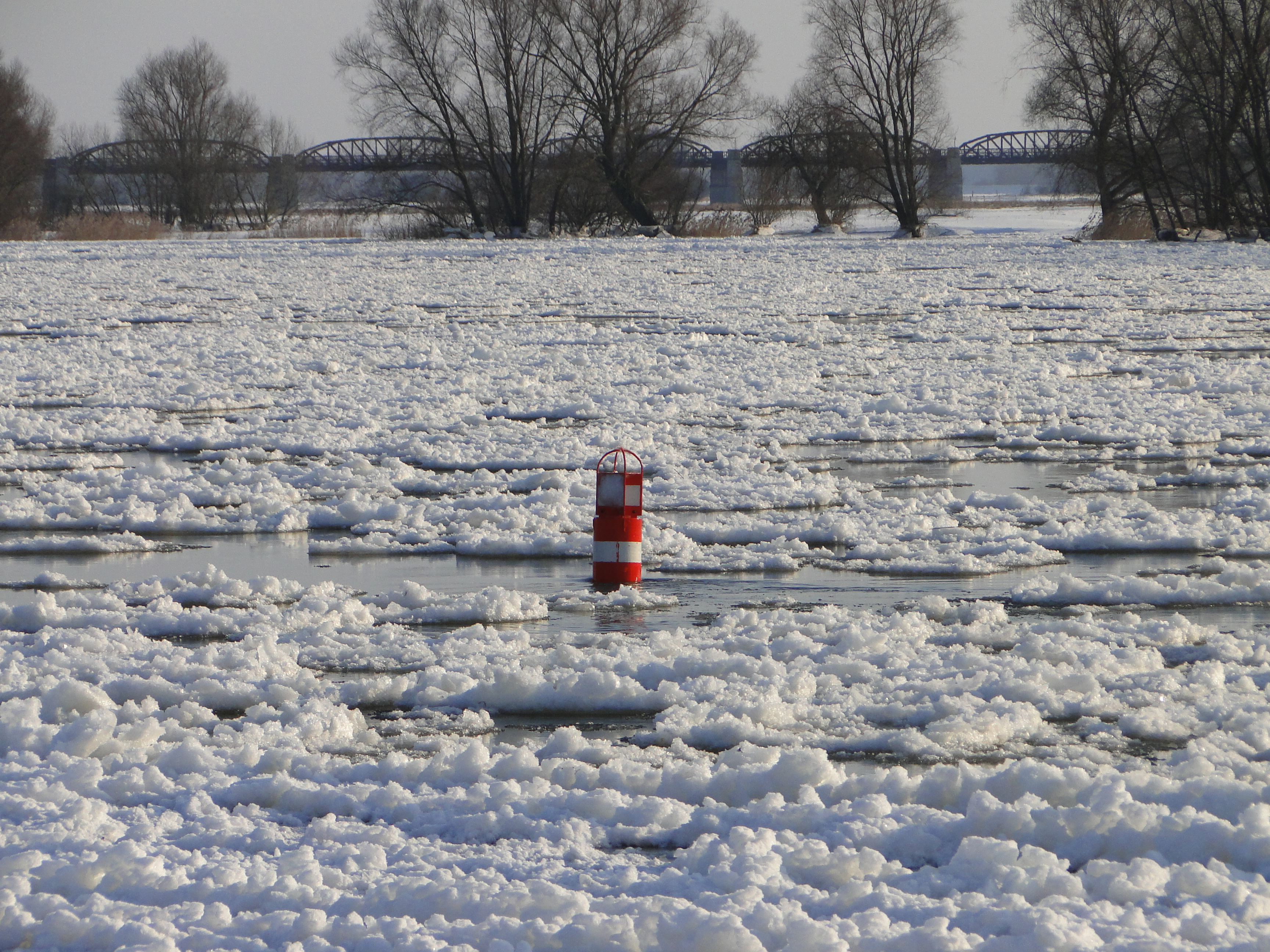 Drift ice at Elbe river in/near Dömitz, district Ludwigslust-Parchim, Mecklenburg-Vorpommern, Germany